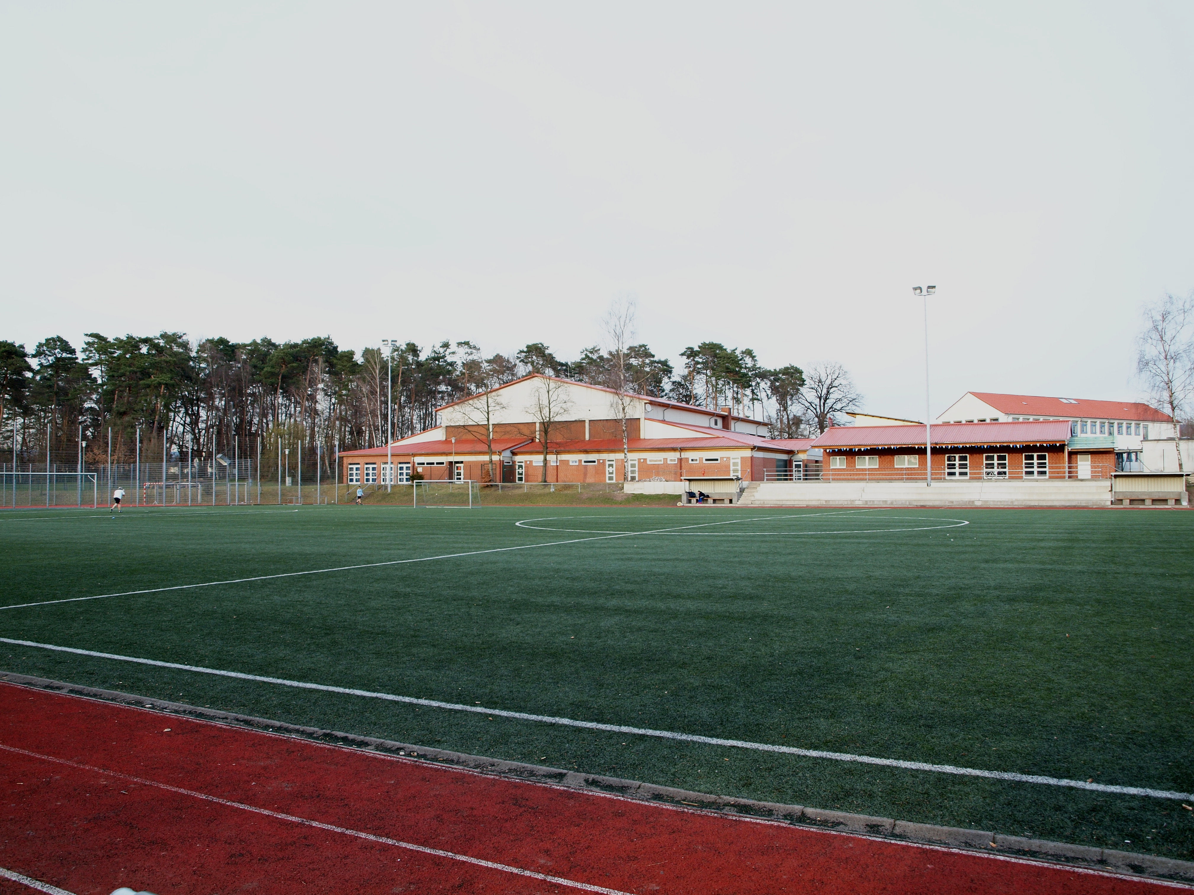 Sports field and gymnasium at the Rennekamp in Schlangen